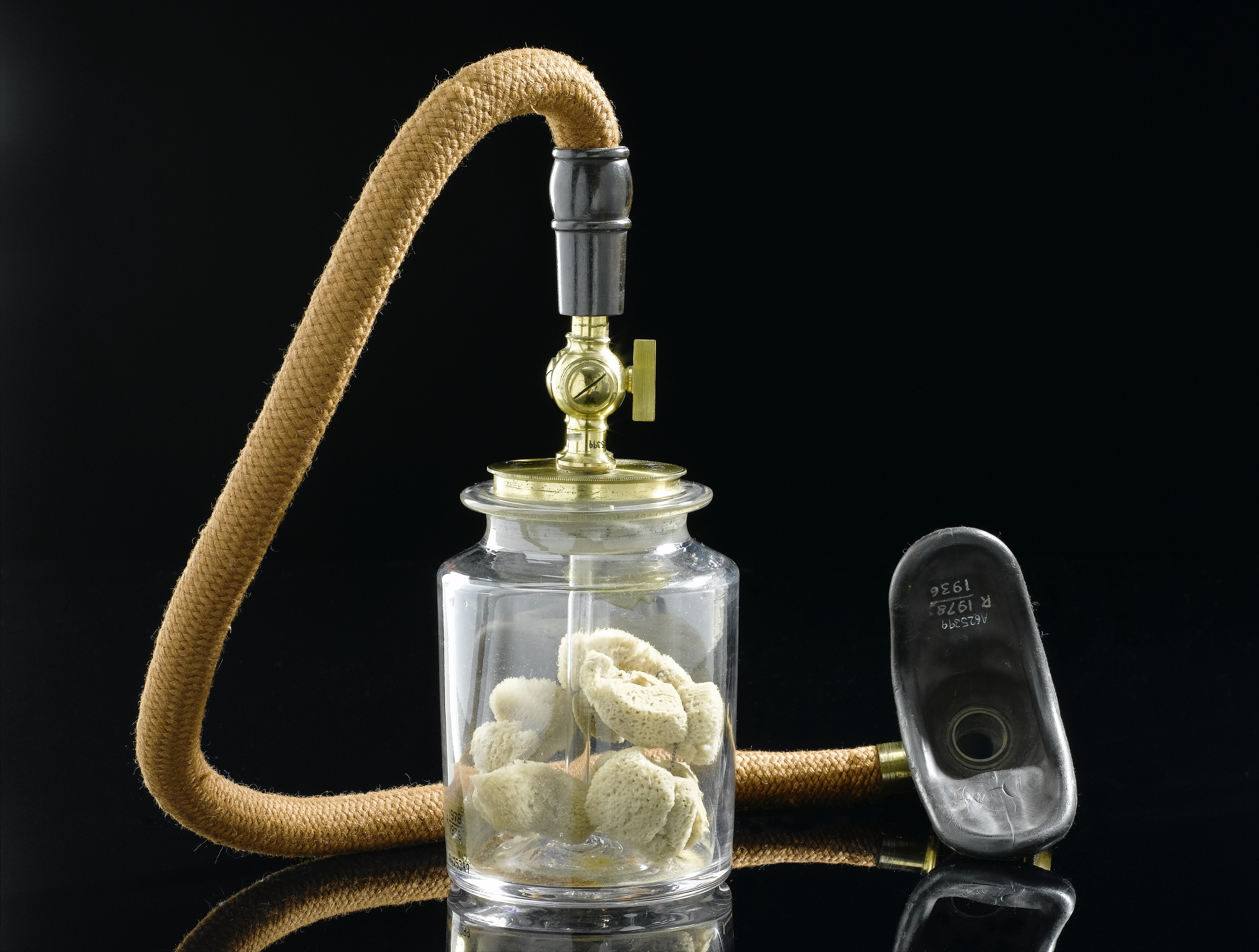 Ether was first used as an anaesthetic in 1846 during the removal of a tooth. The dentist was William Thomas Green Morton (1819-1868), an American. This inhaler is adapted from Morton’s original. Morton called his invention the ‘Letheon Inhaler’ to keep the anaesthetising agent, ether, a secret and to control who used it. Ether-soaked sponges were placed in the glass jar. Flexible rubber tubing connected the valve to the face mask so the patient could inhale the ether. The outlet valve has a glass tube attached so more ether can be put on the sponges if needed. maker: Weiss, John Place made: London, Greater London, England, United Kingdom Wellcome Images Keywords: inhaler; anaesthetic; ether